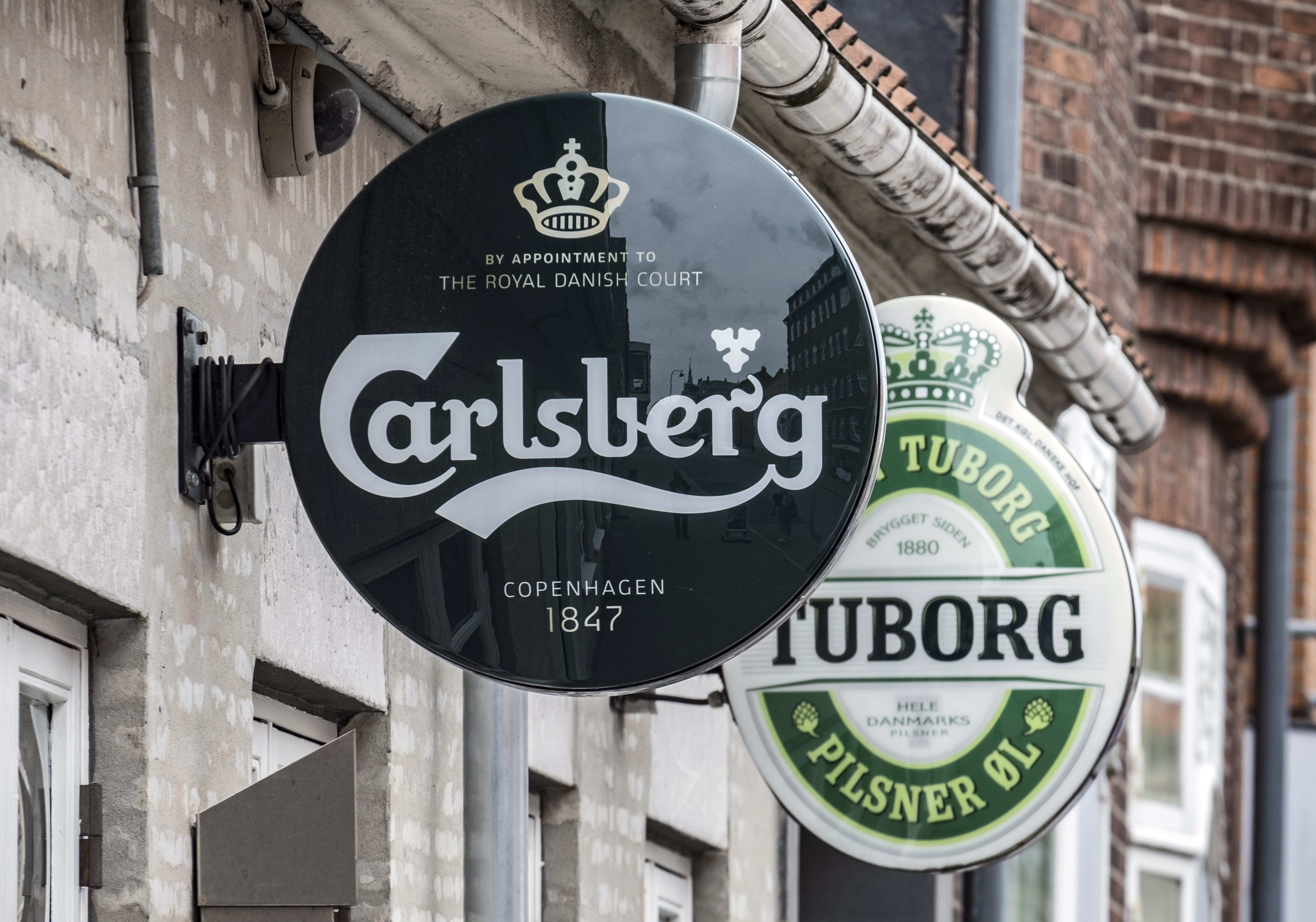 Skyltar för Carlsberg och Tuborg i Fredericia Photo: News Øresund - Johan Wessman © News Øresund - Johan Wessman (CC BY 3.0) Detta verk av News Øresund är licensierat under en Creative Commons Erkännande 3.0 Unported-licens (CC BY 3.0). Bilden får fritt publiceras under förutsättning att källa anges. .The picture can be used freely under the prerequisite that the source is given. News Øresund, Malmö, Sweden News Øresund är en oberoende regional nyhetsbyrå som är en del av det oberoende dansk-svenska kunskapscentrat Øresundsinstituttet.